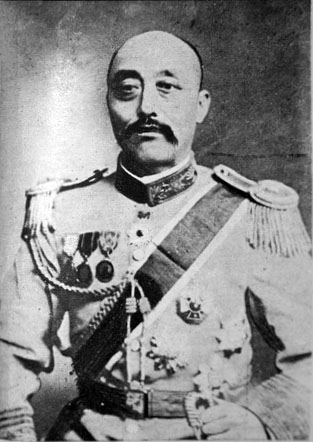 Wang Huaiqing